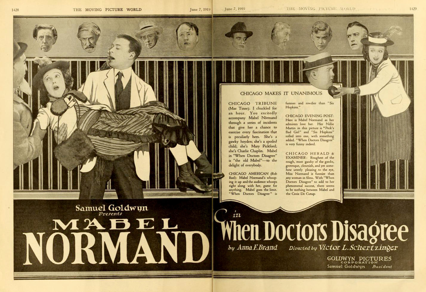 Advertisement for When Doctors Disagree (1919), a film with Mabel Normand. The Moving Picture World, June 1919.